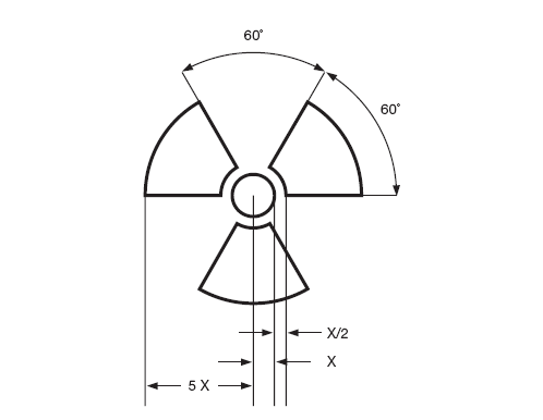 Standard dimensions for the trefoil radiation symbol.